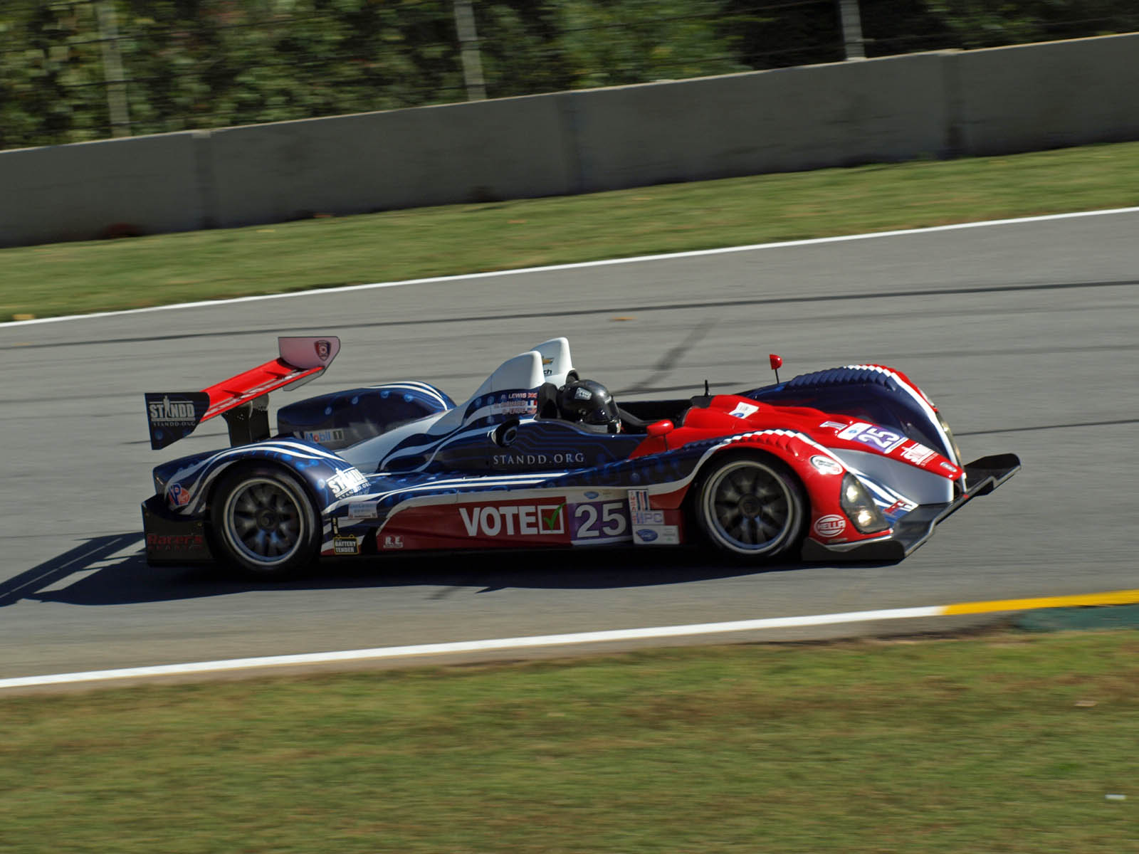 Ryan Lewis in the Dempsey Racing Oreca FLM09-Chevrolet during qualifying for the 2012 Petit Le Mans